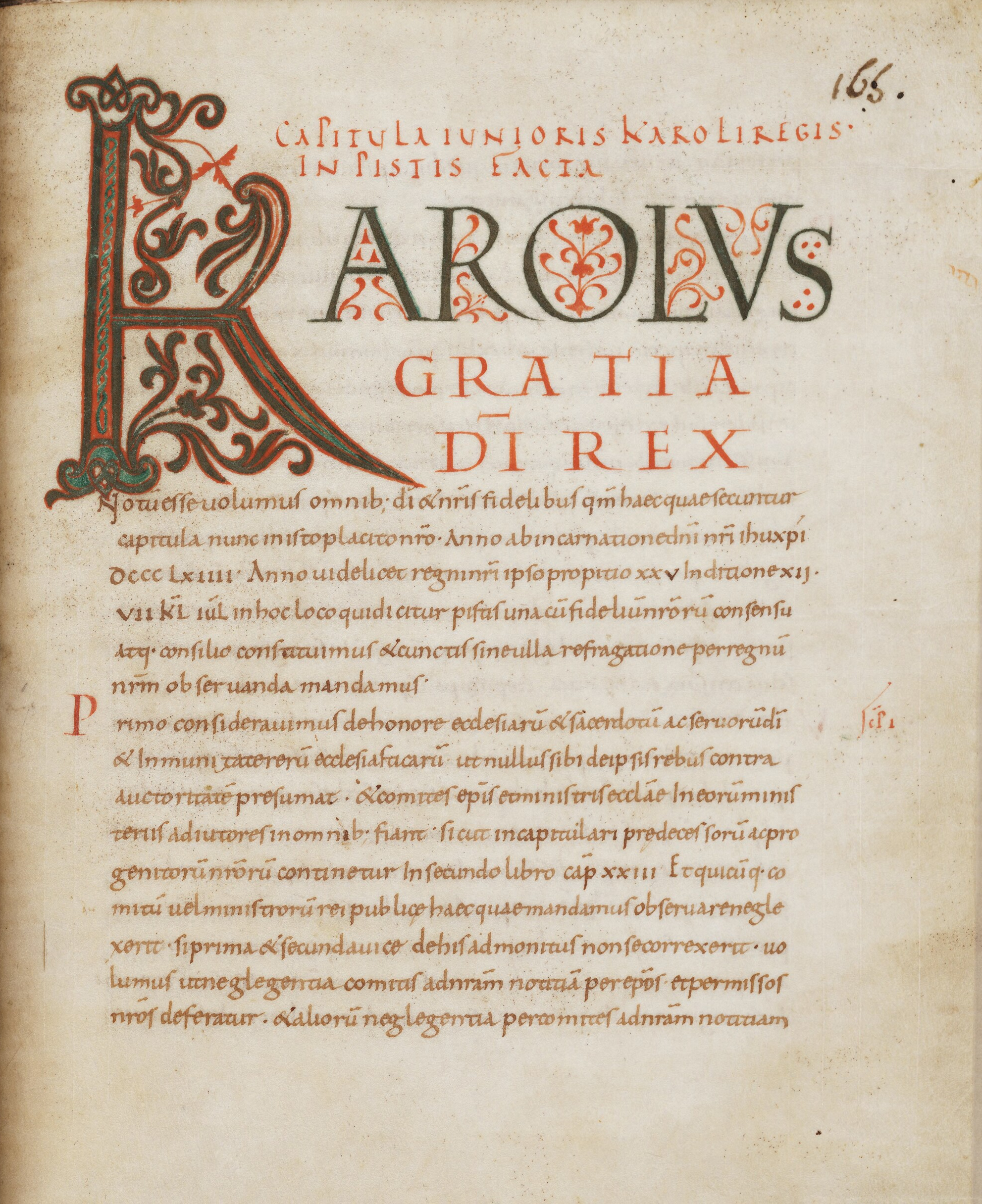 fol. 165 from Beinecke MS 413, a codex containing capitularies of Charlemagne, Louis the Pious, etc. incipit: CAPITULA IUNIORIS KAROLI REGIS IN PISTIS FACTA KAROLVS GRATIA DI REX